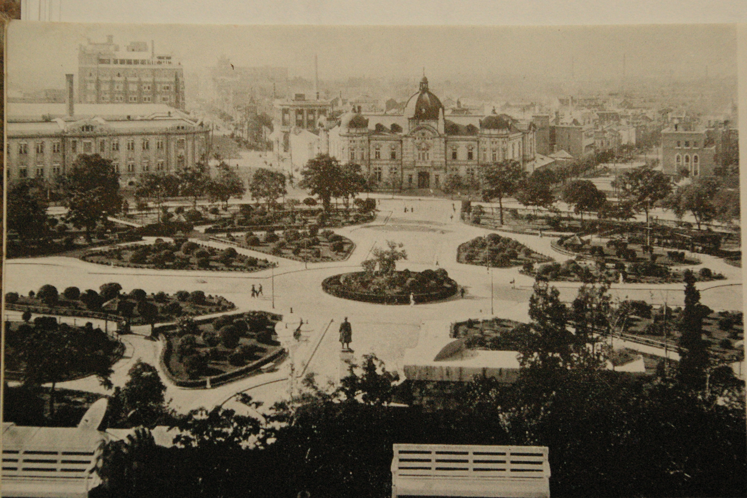 Zhongshan Square in the city of Dalian, about 1940.